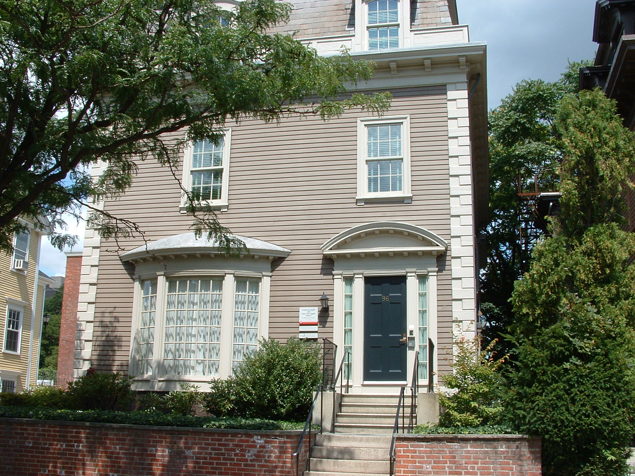 Brown University - Frederick Lippitt and Mary Ann Lippitt House